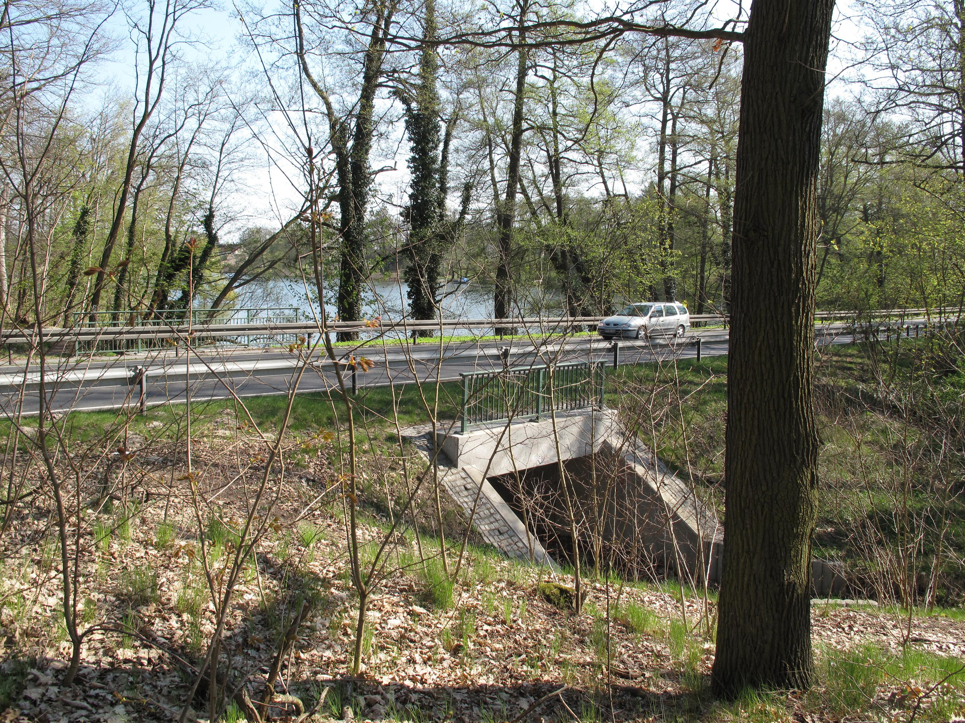 Bundesstraße 2 (federal highway) between the Kleinen (small) and Großen (large) Seddiner See (on the left). The dam, which divided the lake, was built in 1804. The Großer Seddiner See is a glacial lake in the nature park Nuthe-Nieplitz in Germany, Brandenburg, district Potsdam-Mittelmark, and covers 2,18 km². The lake is situated in the municipalities Seddiner See and Michendorf.